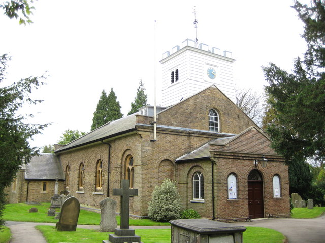 St Andrew's parish church, Totteridge, London N20, seen from the northwest